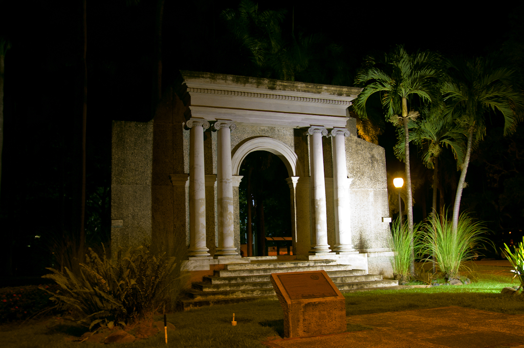 University of Puerto Rico, Mayaguez Campus, "Portico"